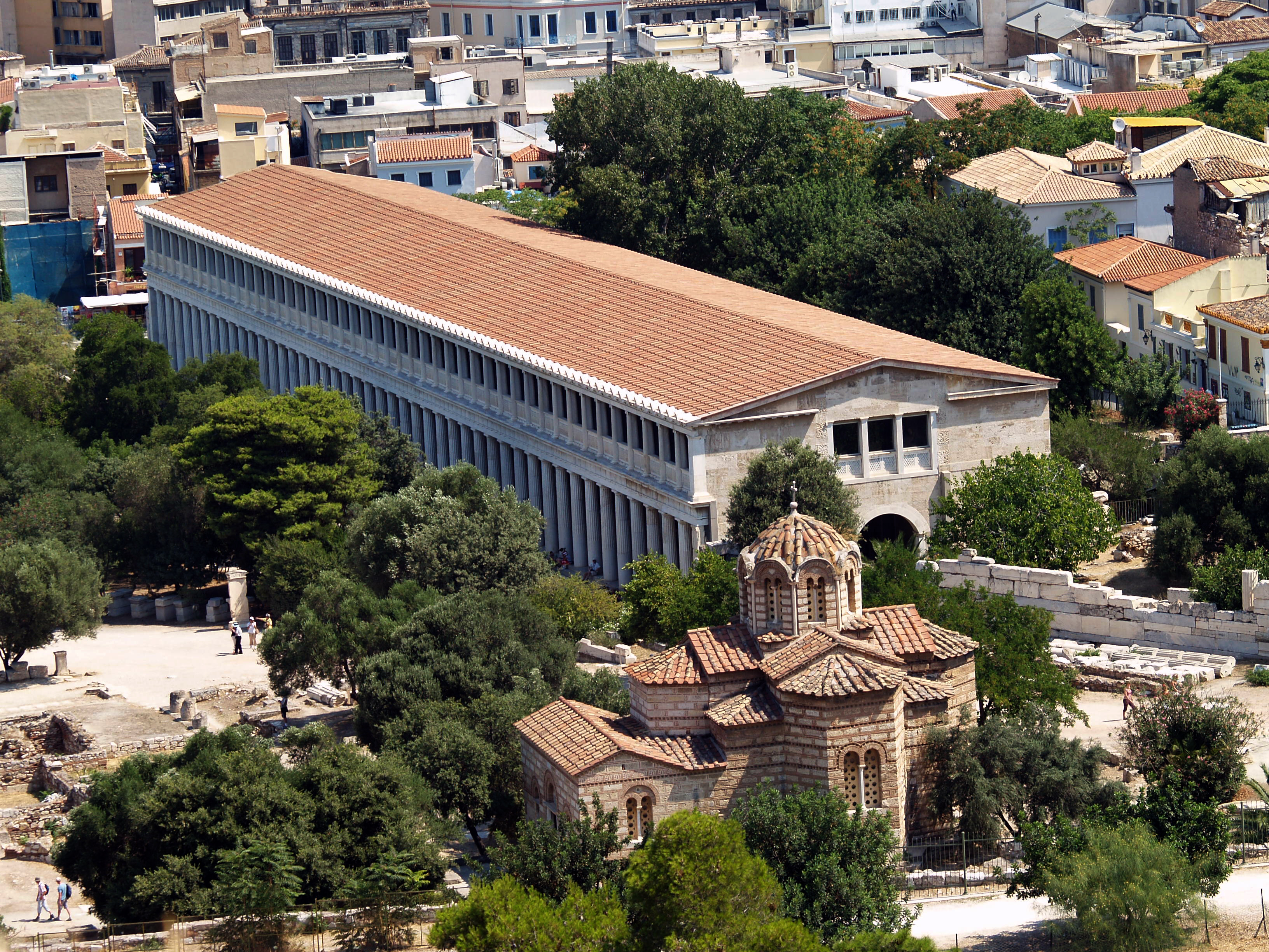 The Stoa of Attalus is an hellenistic monumental porticoe given by Attalus II of Pergamon (159-138 BC) to the city of Athens, as a gift for the education he had received there. It was rebuilt between 1953 and 1956 and now houses the Ancient Agora Museum in Athens.